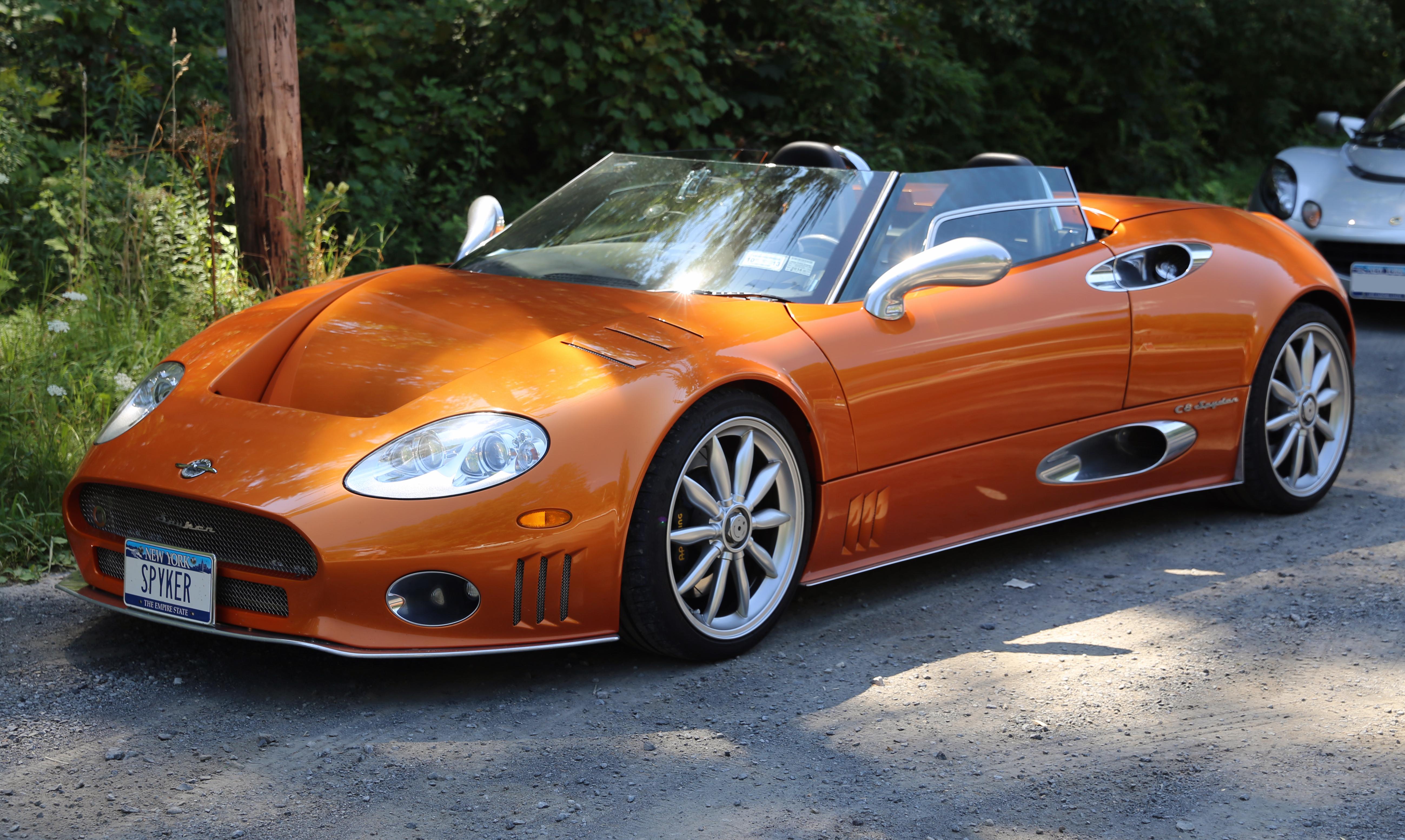 2009 Spyker C8 Spyder, photographed near the original site of Shokan in upstate NY (Shokan was apparently moved to make room for the Ashokan reservoir).